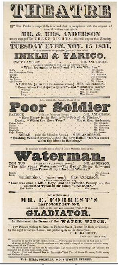 Theatre The publie [sic] is respectfully informed that in compliance with the request of several families and others Mr. & Mrs. Anderson are re-engaged for three nights, and will appear this evening. Tuesday even. Nov. 15 1831, will be presented the popular opera in 3 acts called Inkle & Yarico. ... After which the favorite opera of The poor soldier ... To conclude with the much admired comic operatic farce of The waterman.